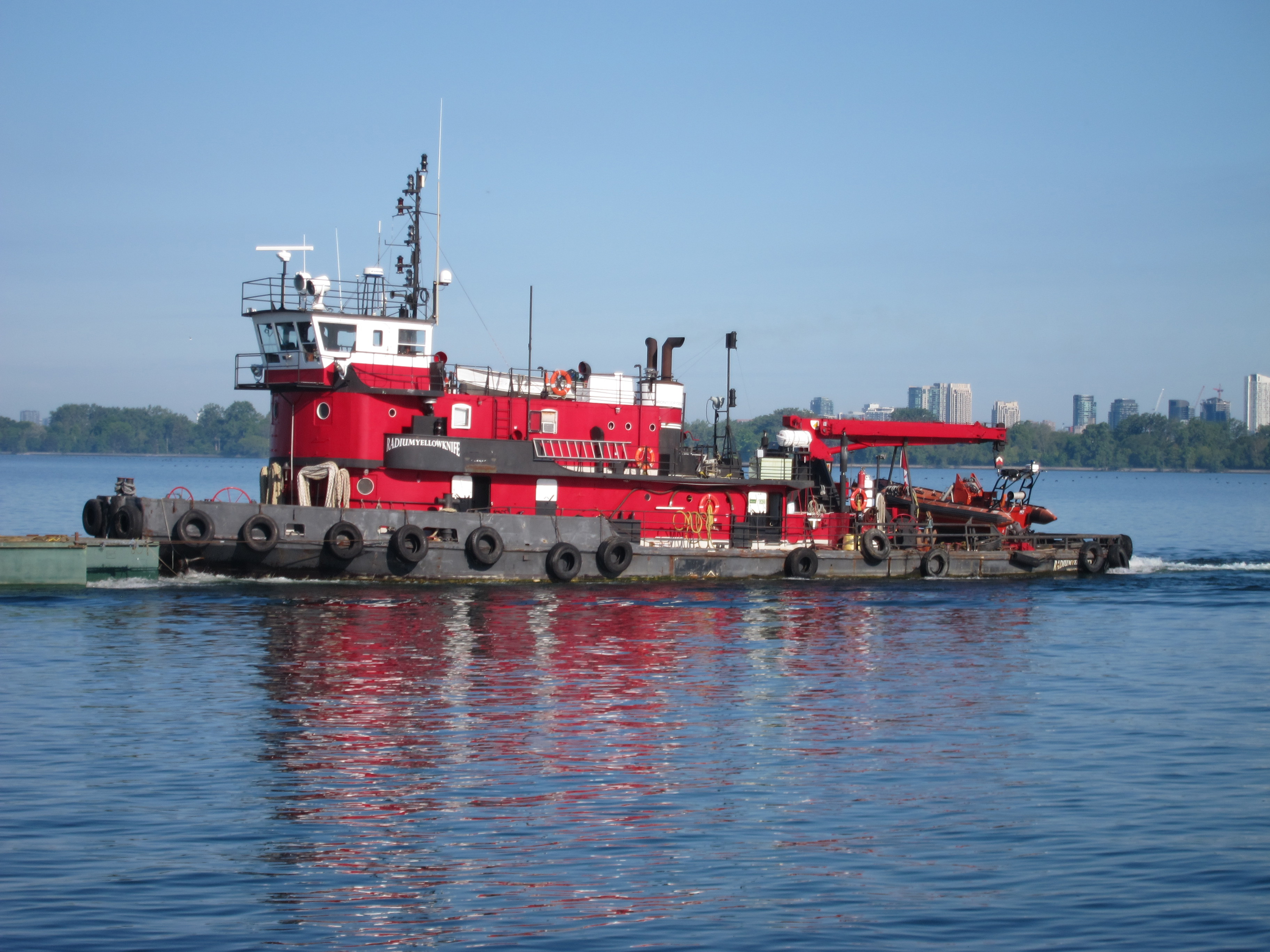 Canadian tugboat Radium Yellowknife (port/left side facing camera) pushing a small green barge from Toronto Harbour. Toronto Islands in background.